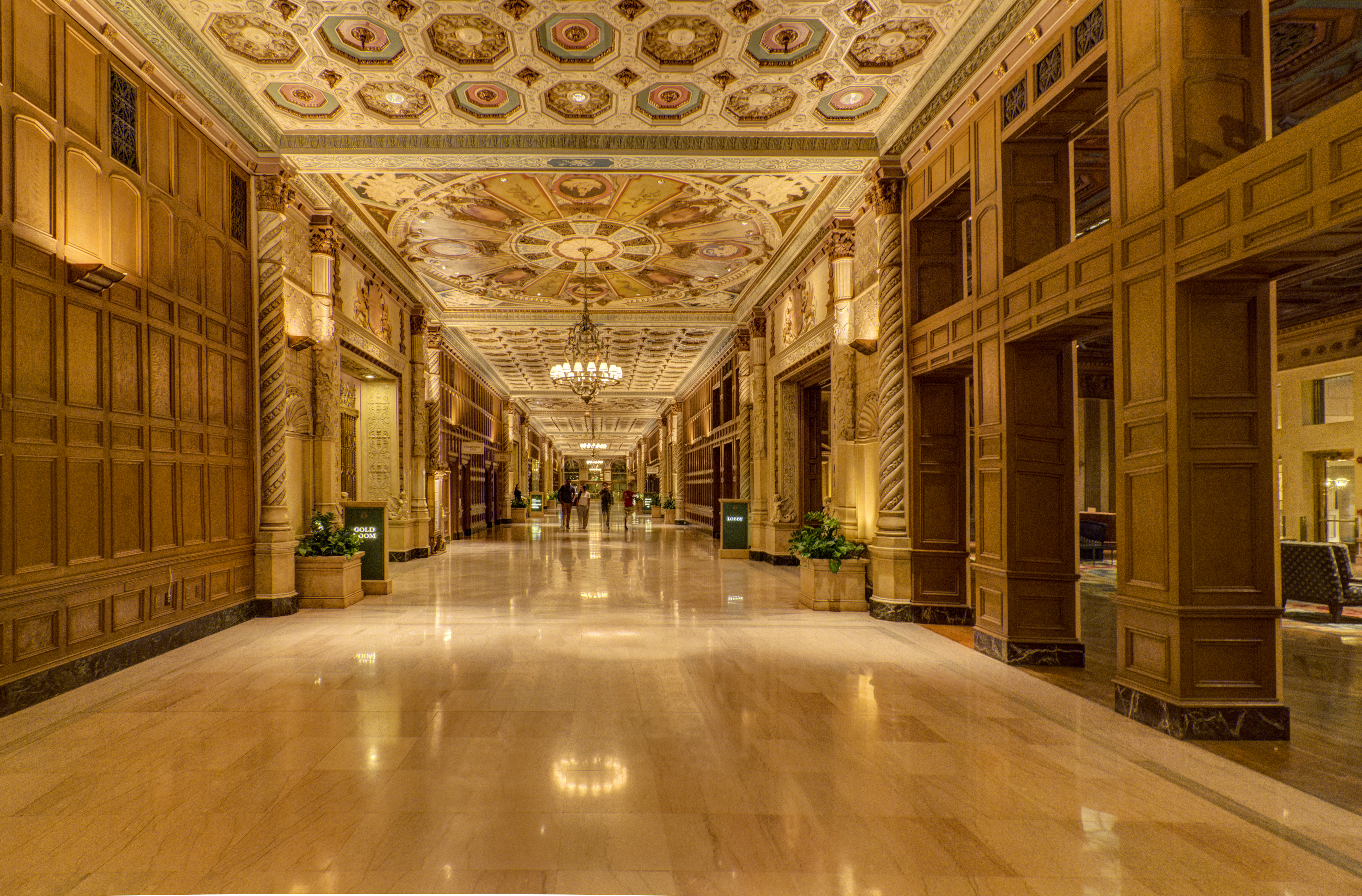 Interior of the Millennium Biltmore Hotel.